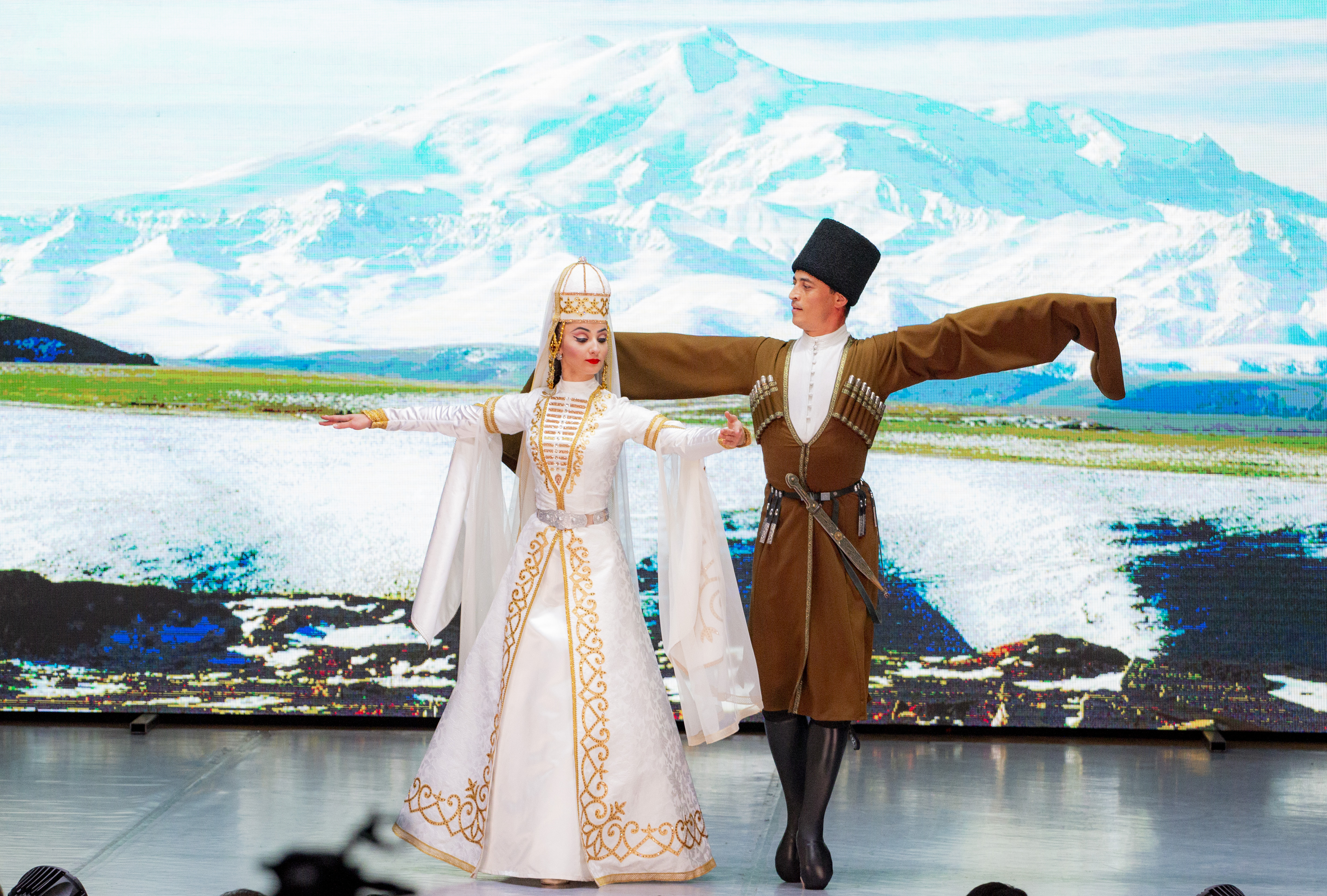 This photo has been taken in the country: Russia